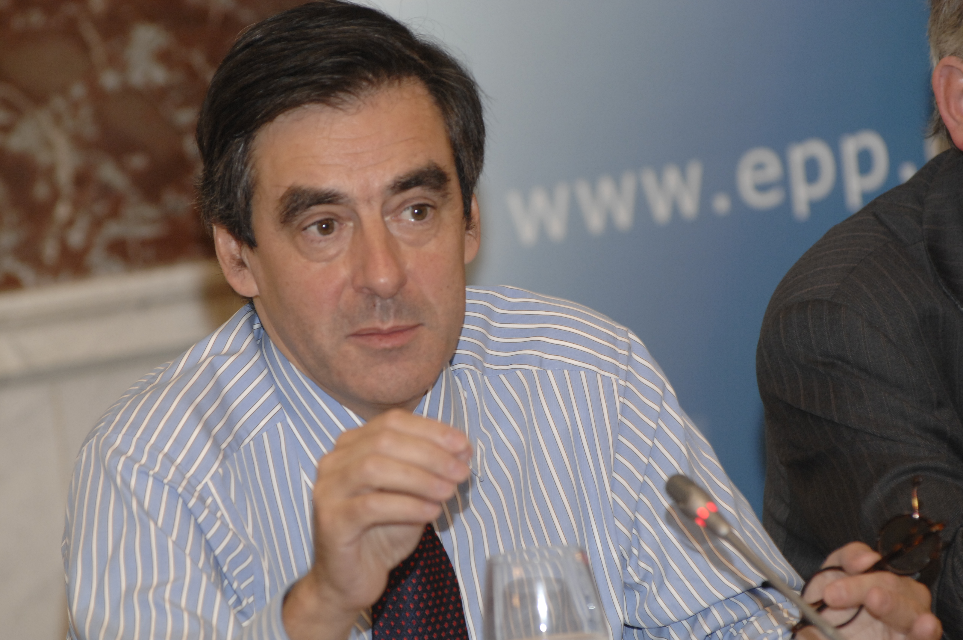 EPP Summit 15 October 2008